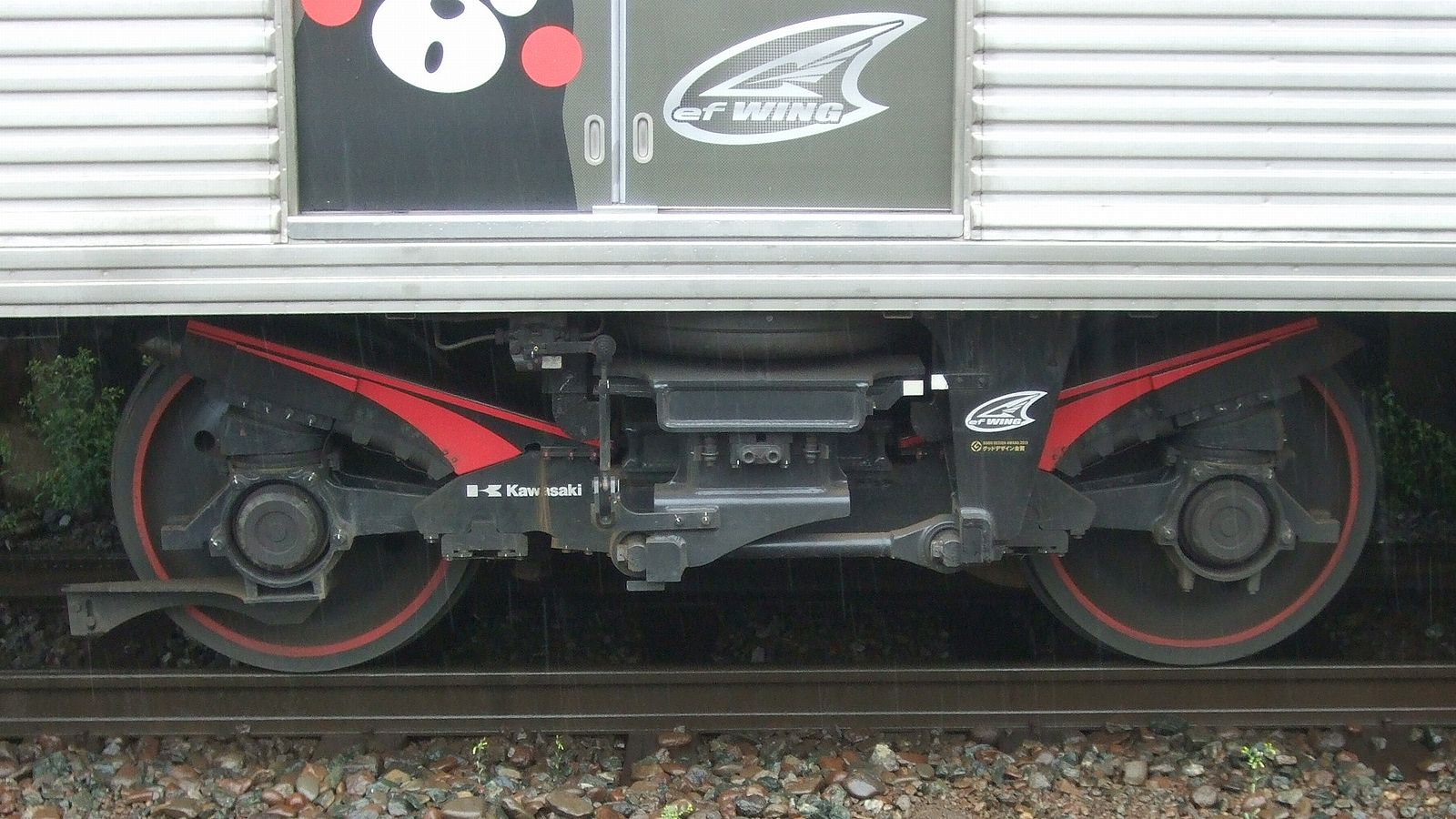 Truck manufacturer:Kawasaki Heavy Industries / Truck type:efWING / Car number:Kumamoto Electric Railway EMU No.6221ef / Location:Kitakumamoto Station, Kita Ward, Kumamoto City, Kumamoto, Japan